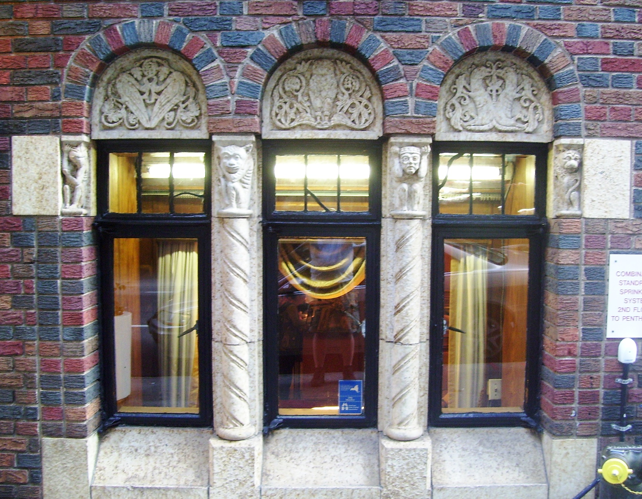 The Hotel Bedford at 118 East 40th Street between Park and Lexington Avenues in the Murray Hill neighborhood of Manhattan, New York City was built in 1928-29 and was designed by George F. Pelham with beige terra-cotta ornamentation. (Source: NYC GIS map)